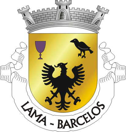 Crest of Lama, a parish in the municipality of Barcelos (Portugal)